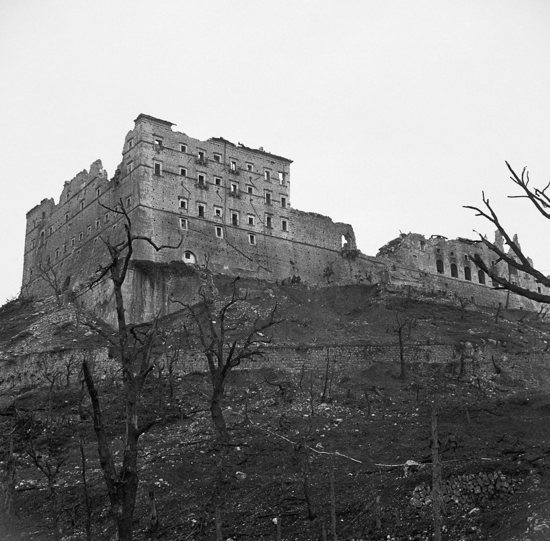 The ruined monastery at Cassino, Italy, 19 May 1944. Ruined shell of the Monte Cassino Monastery a day after it was captured by the 2nd Polish Corps troops. Photograph shows the only surviving wall of the Abbey after the bombardment in February 1944.